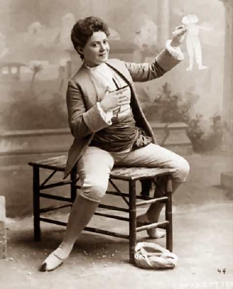 Marie Jansen c. 1889. Note: the original cabinet card at the New York Public Library is captioned "Marie Jansen in "The Oolah", but the costume and scenery depicted here do not appear to correspond to a musical set in Persia. Compare to other photographs from The Oolah in the Museum of the City of New York collection. It is possible that this photograph was mislabeled, or part of a publicity campaign using prior photographs.